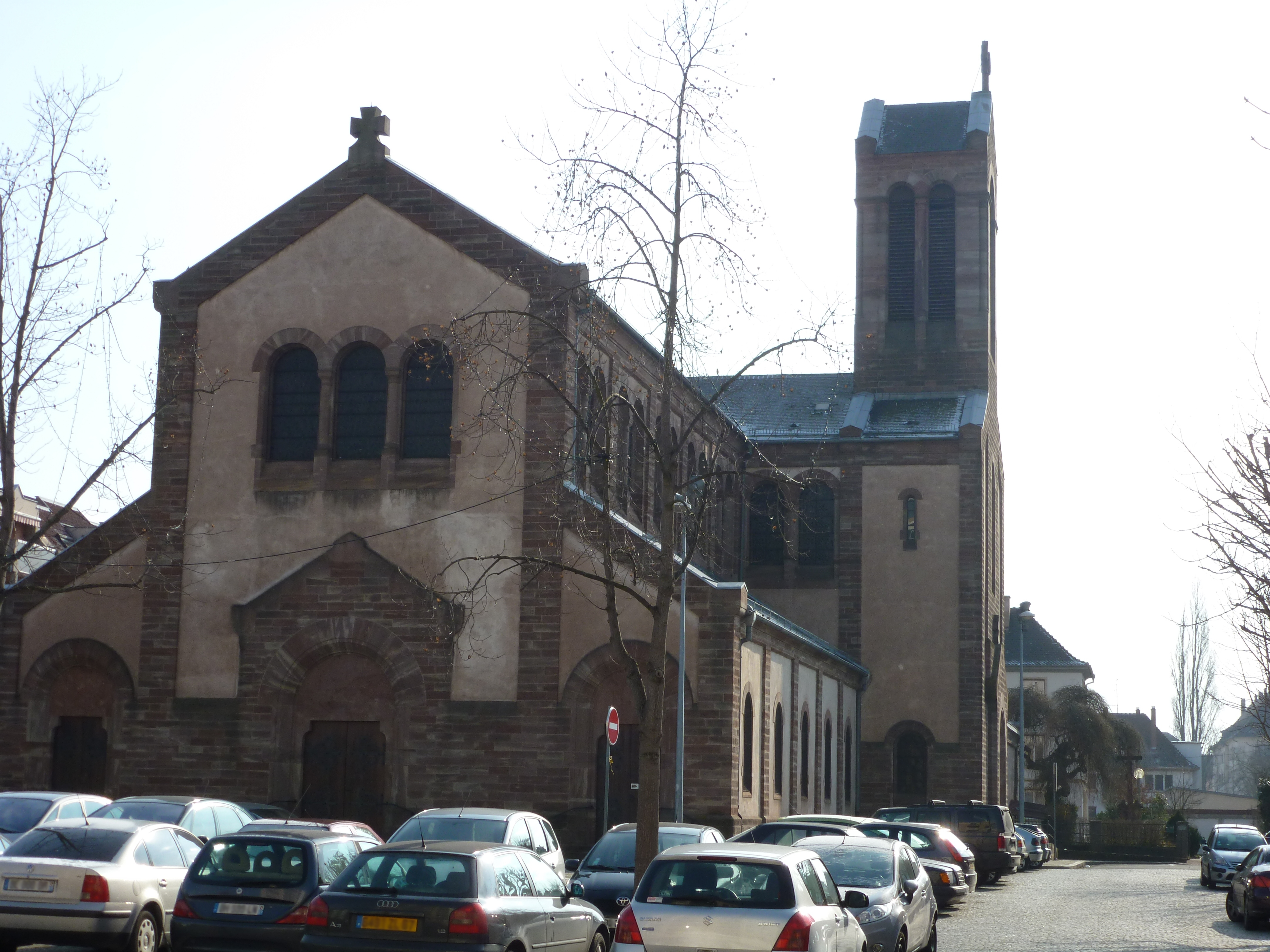 church Saint Aloyse (Aloysius Gonzaga) in Strasbourg Neudorf